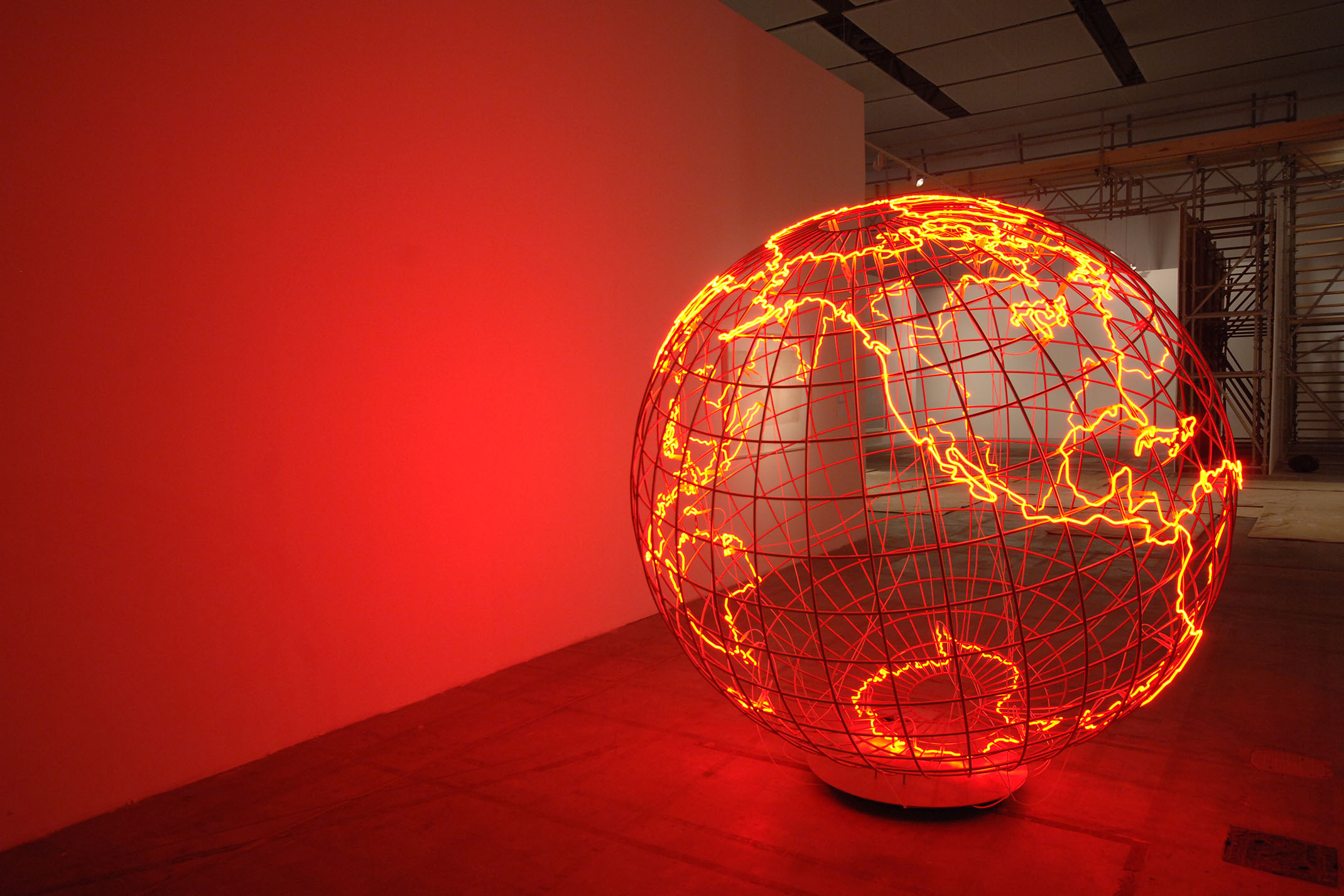 Mona Hatoum Hot Spot, 2006 Stainless steel and neon glass tube Installation view Rennie Collection, Vancouver, Canada